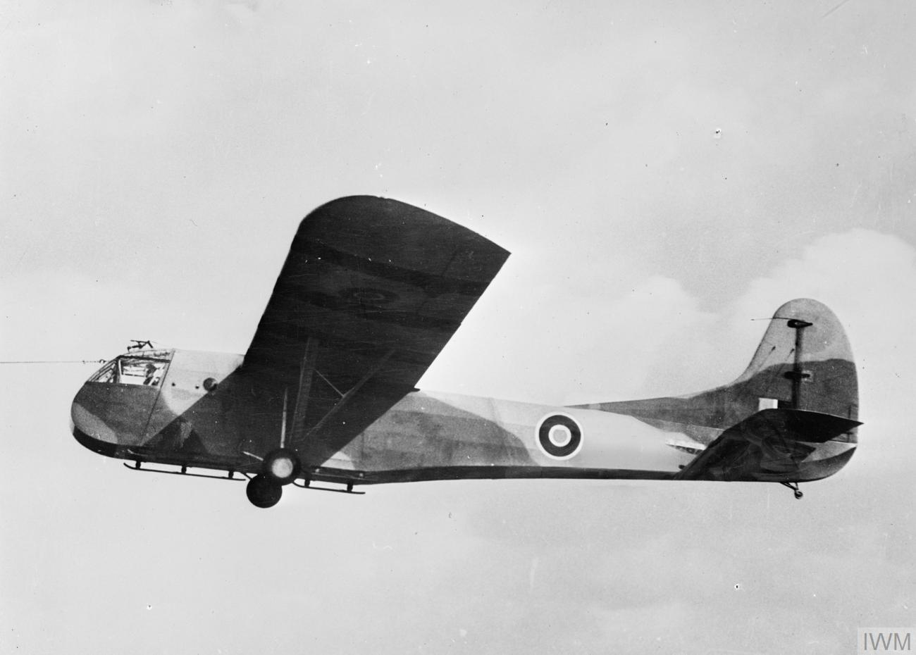 American Aircraft in Royal Air Force Service 1939-1945- Waco Model Cg-4 Hadrian. Hadrian Mark I, probably FR557, under tow at the Airborne Forces Experimental Establishment, Sherburn-in-Elmet, Yorkshire.